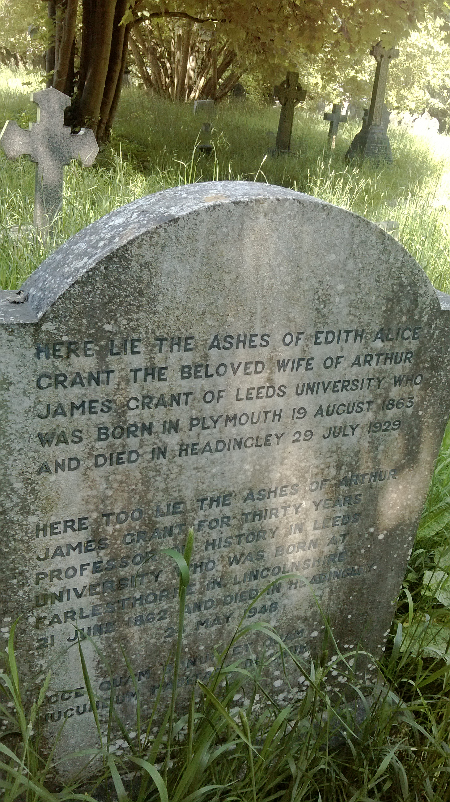 The grave of Prof. Authur James Grant and his wife in St Chad's Church, Far Headingley, Leeds